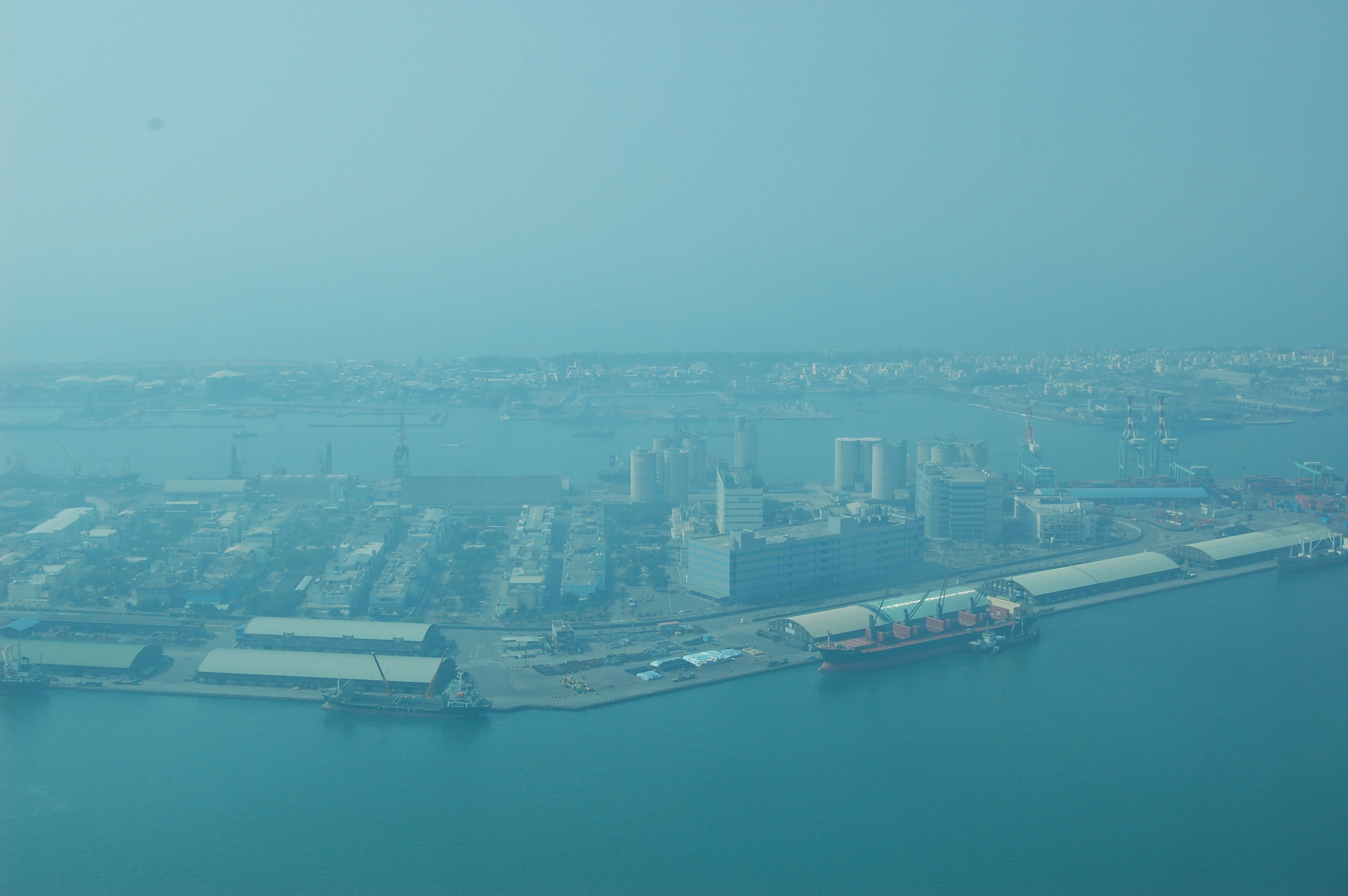 a view from the observation level of southern Taiwan's tallest building, the 348-meter Tuntex Sky Tower